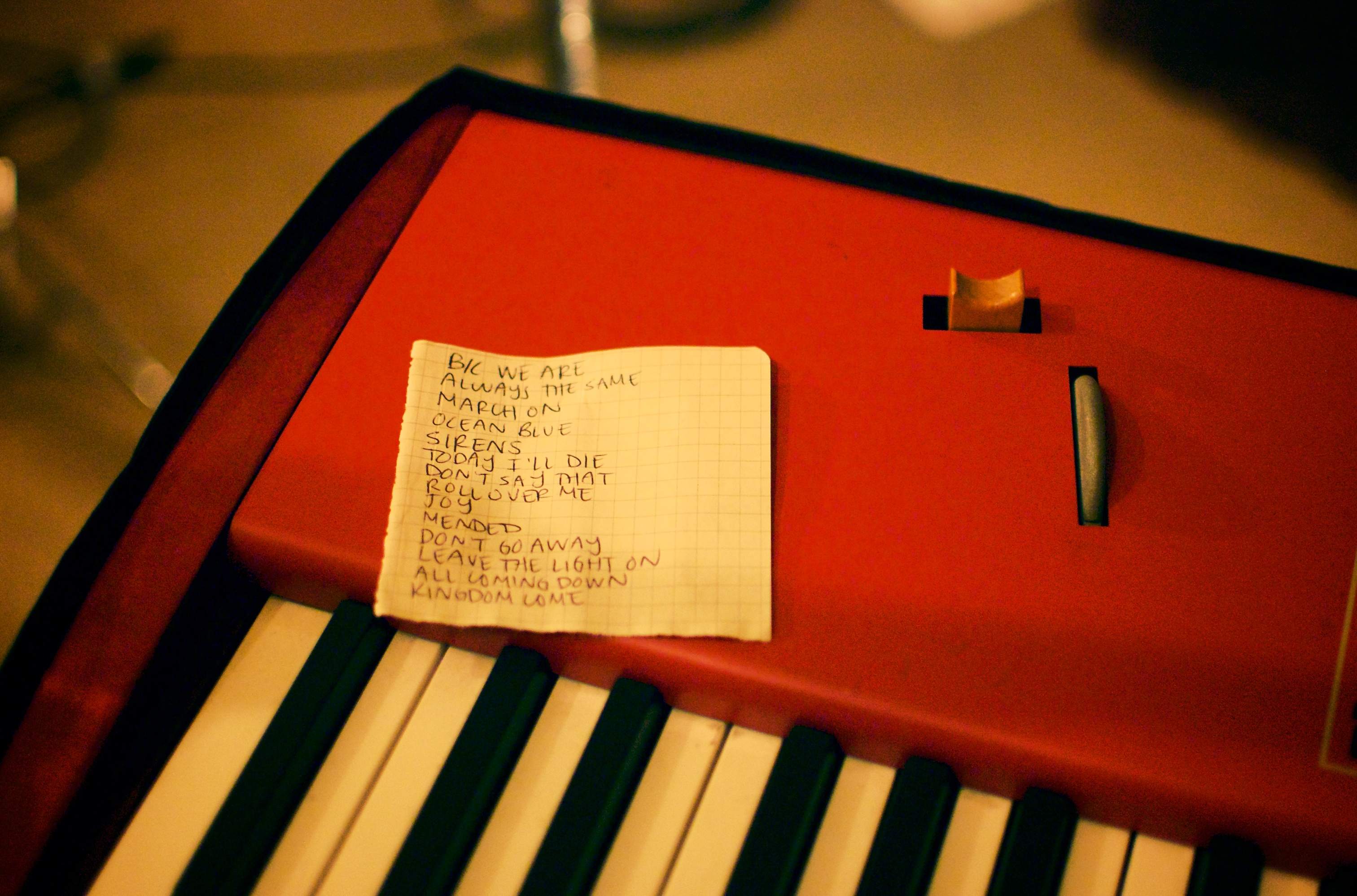 House Show in PV, KS. Clavia Nord Stage 88